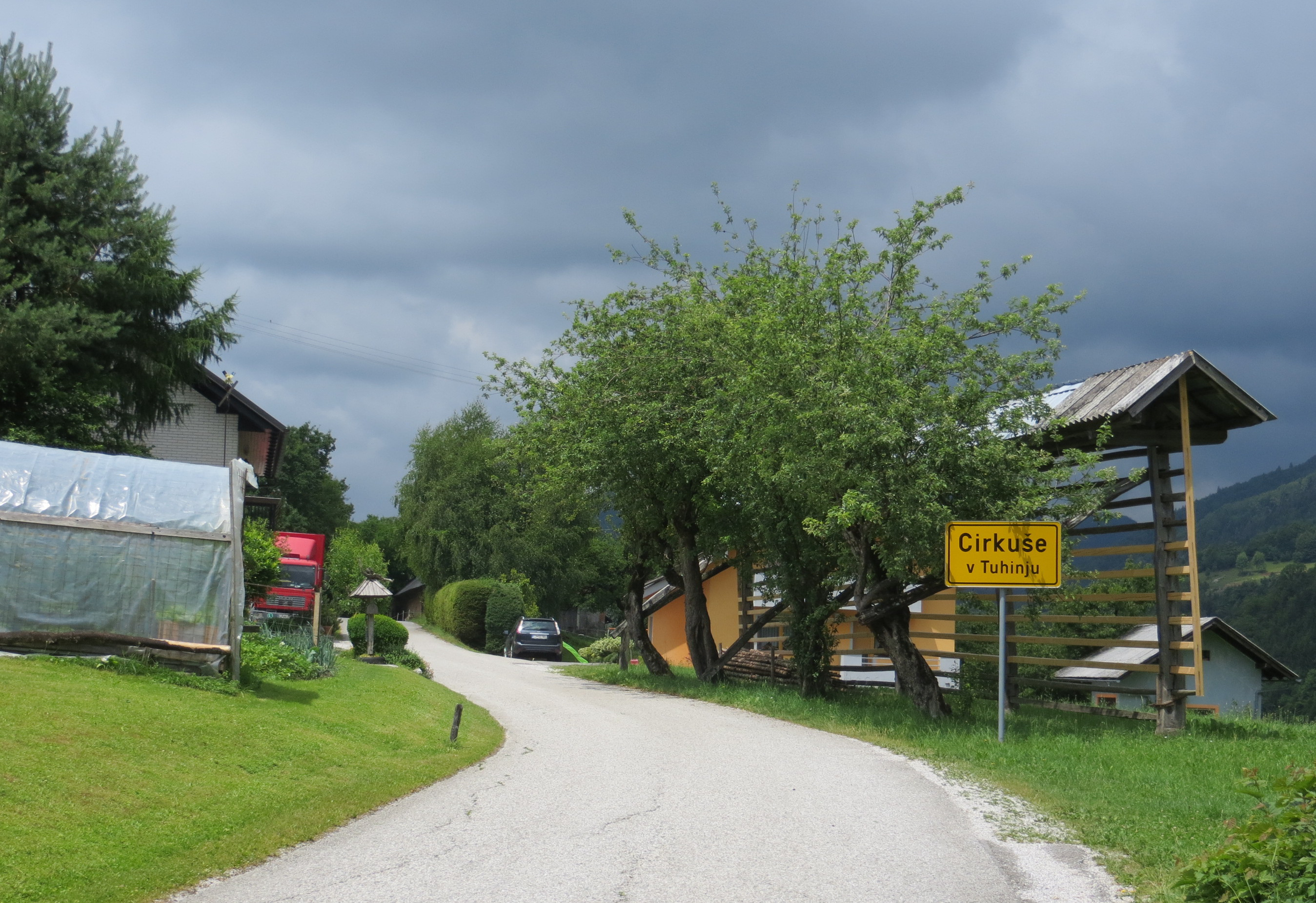 Cirkuše v Tuhinju, Municipality of Kamnik, Slovenia